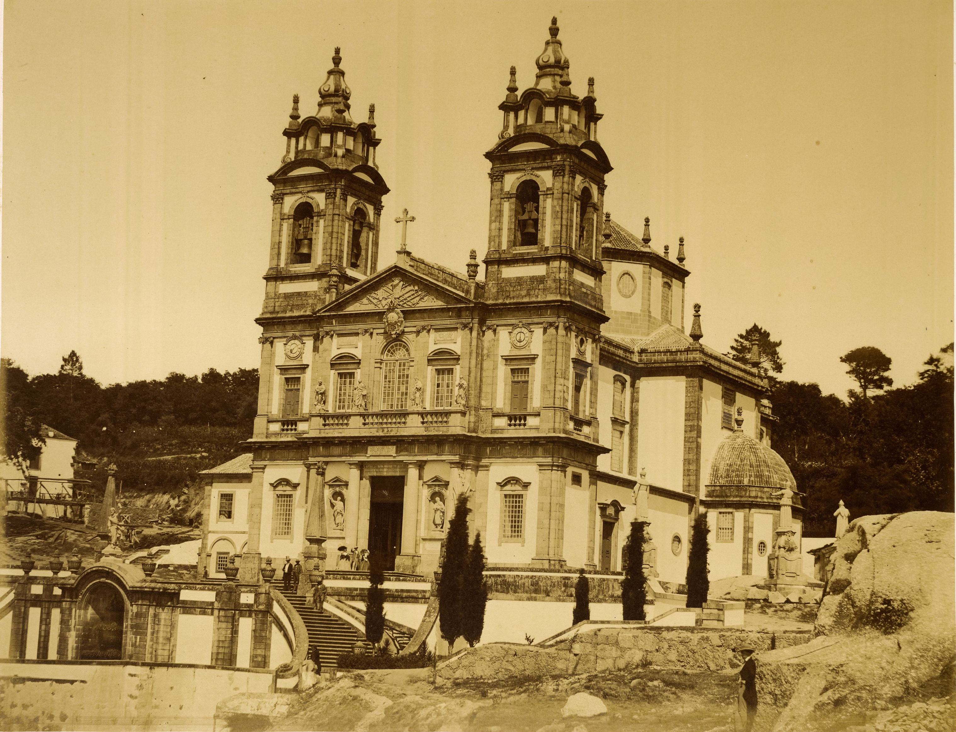 Bom Jesus de Braga in the middle of XIX century.